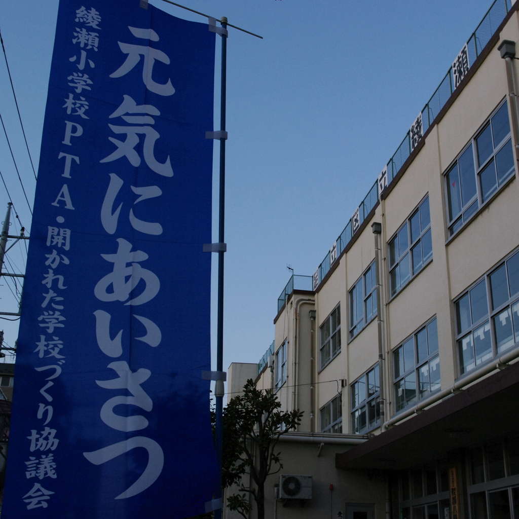 "Exchange greetings." A flag of an elementary school in Adachi, Tokyo.